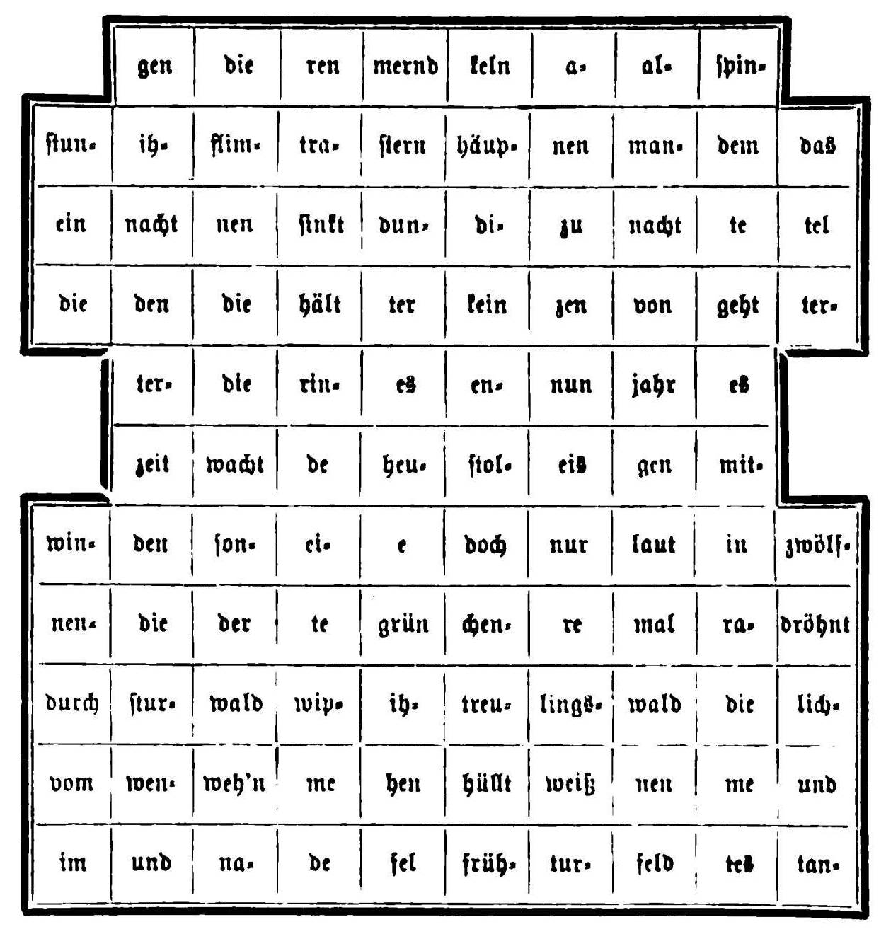 no caption